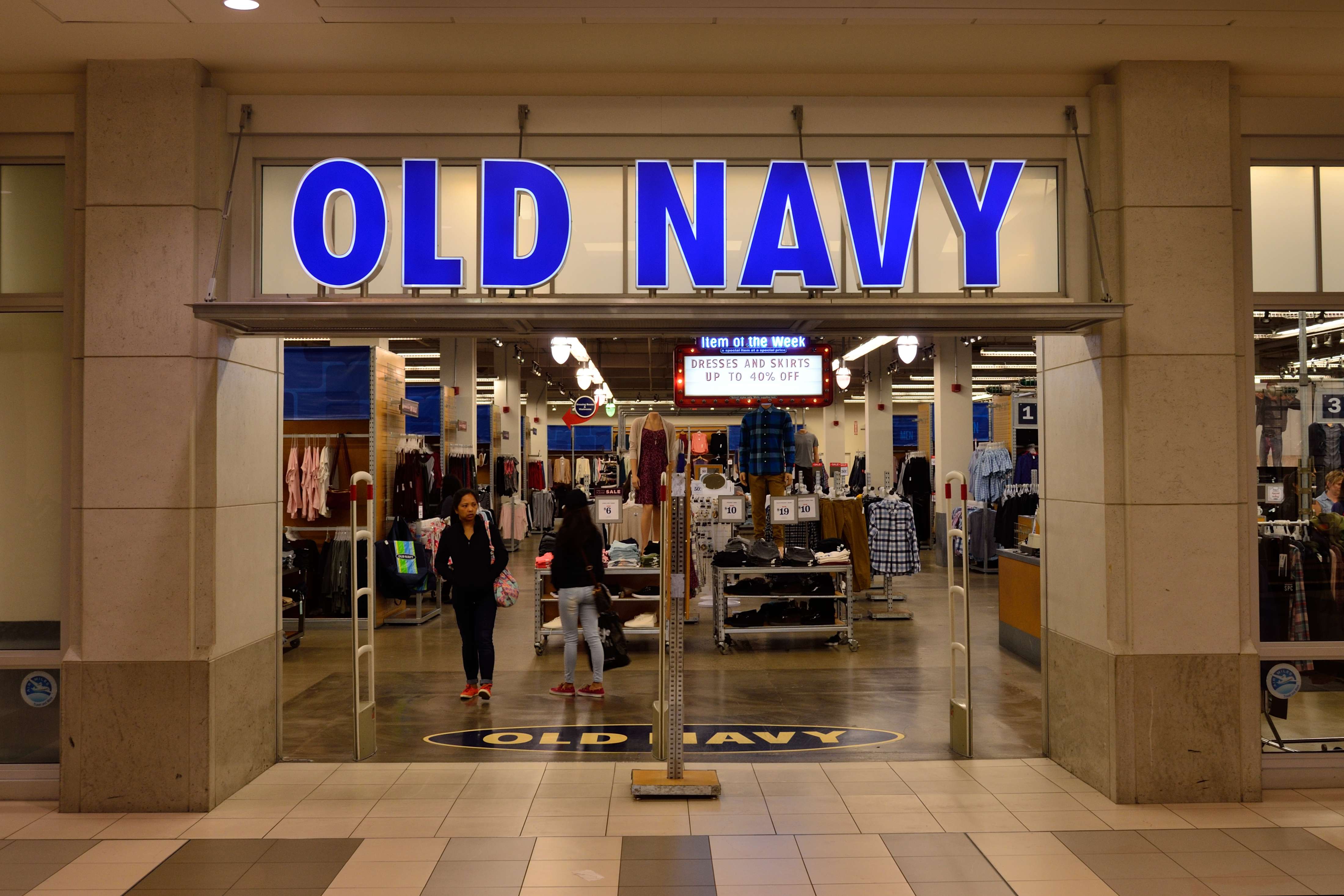 Old Navy at Promenade